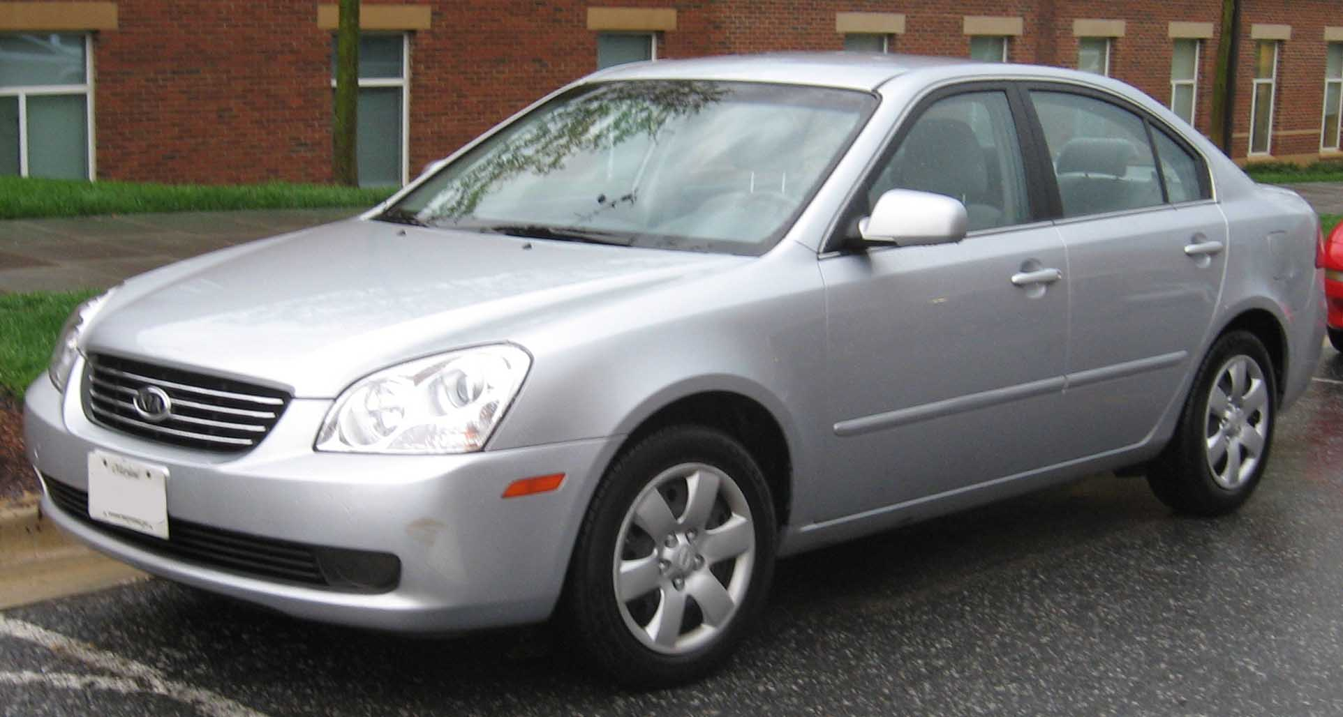 2006-2008 Kia Optima photographed in College Park, Maryland, USA.